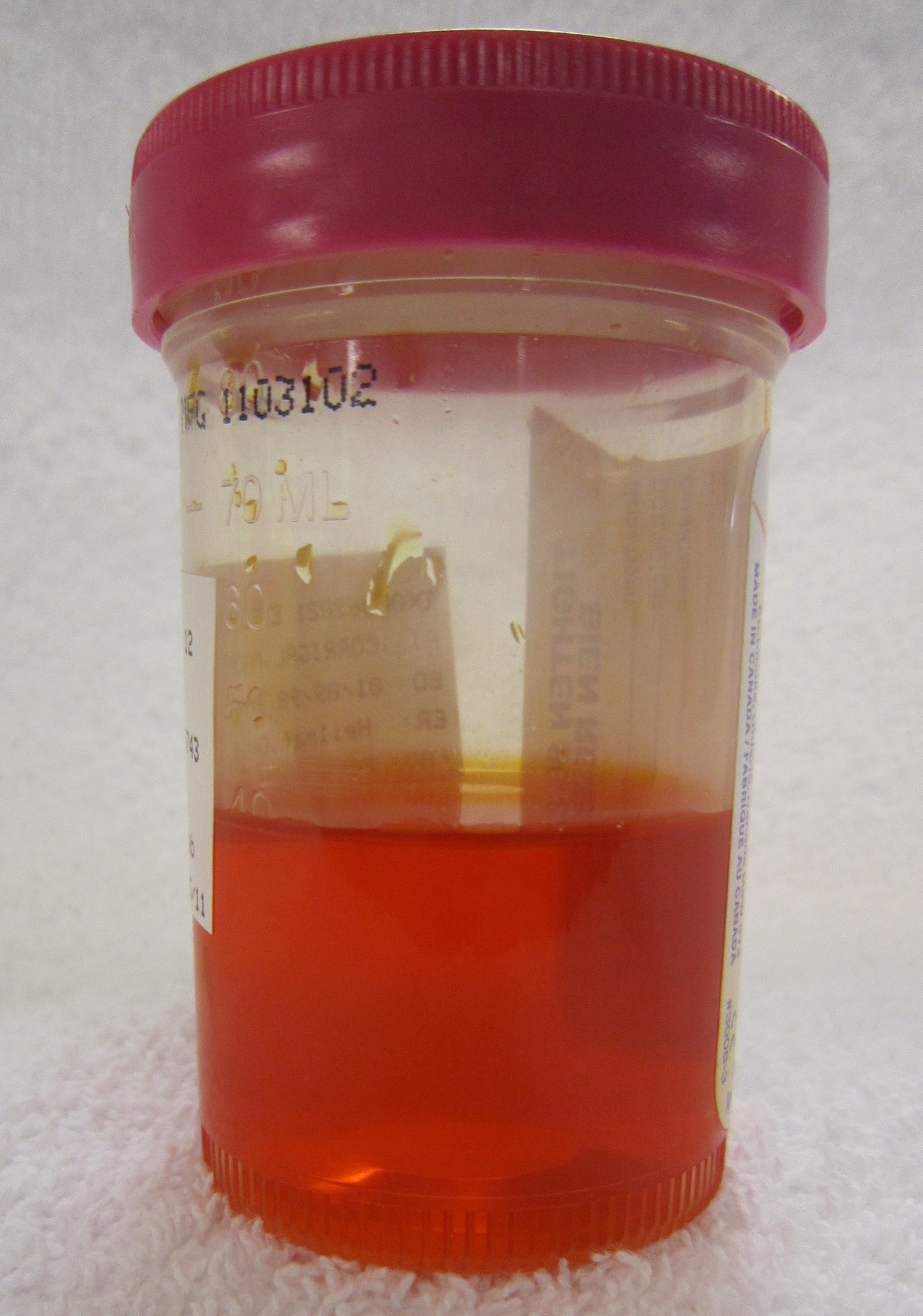 The characteristic color of urine after taking pyridium (phenazopyridine)